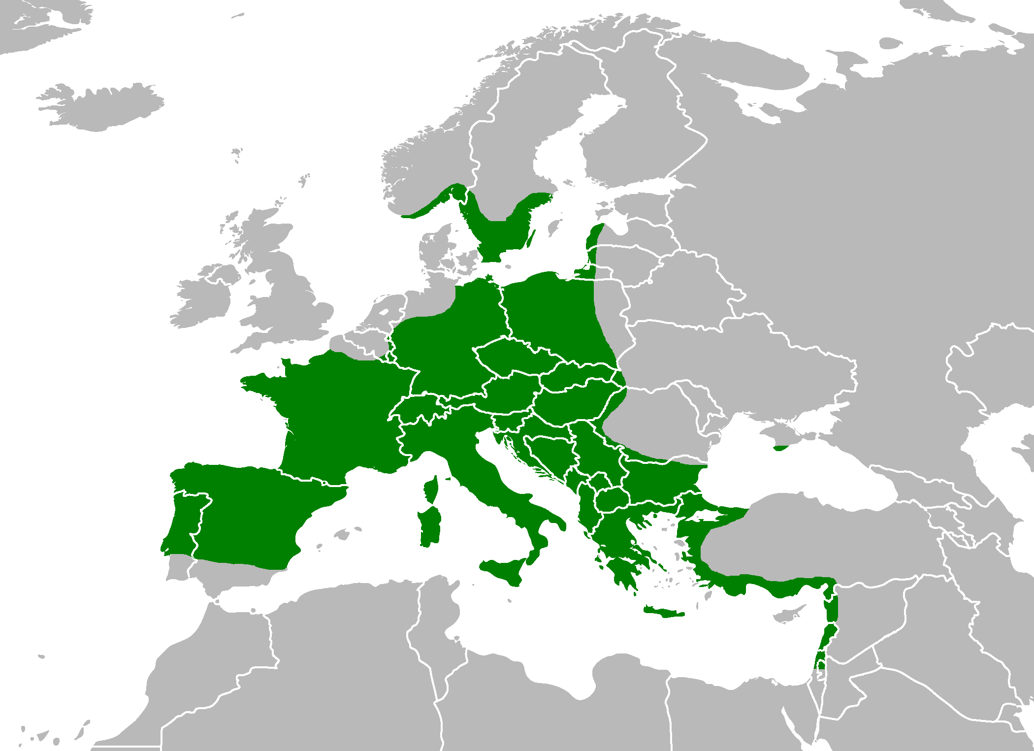 Range of Oedemera flavipes (Coleoptera: Oedemeridae)